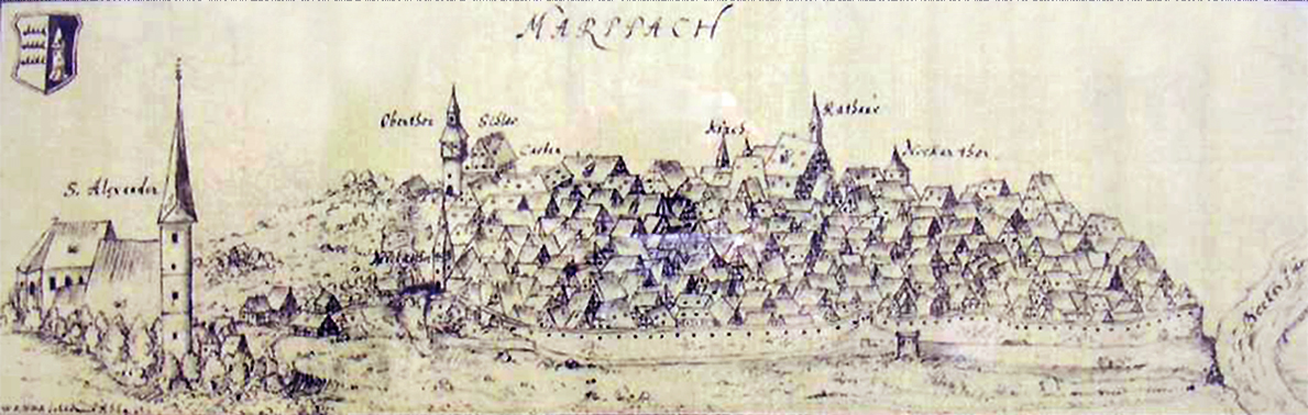 View of the old town of Marbach am Neckar (Germany), 1664